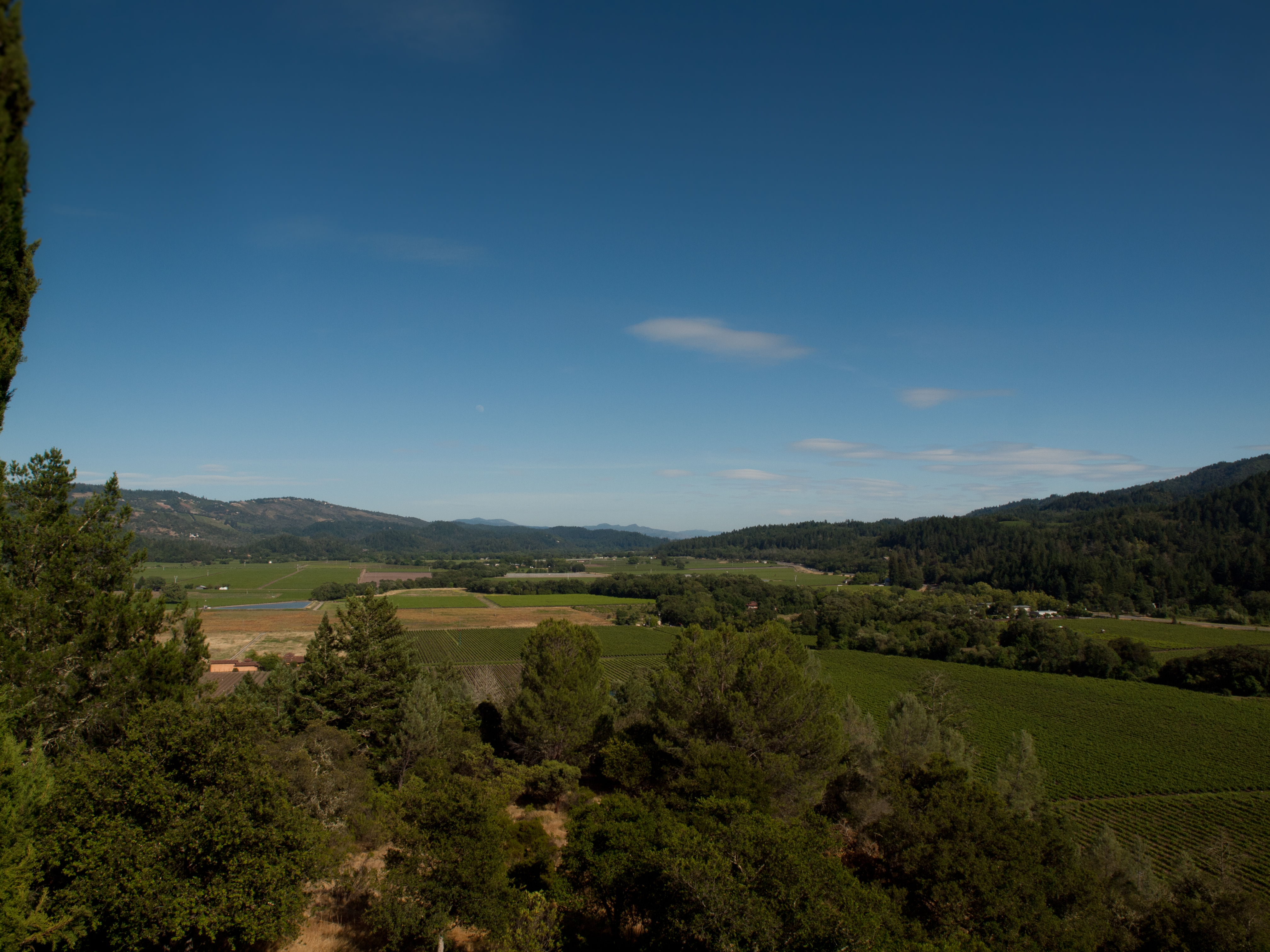 Vineyards in the California wine region of Calistoga in Napa Valley